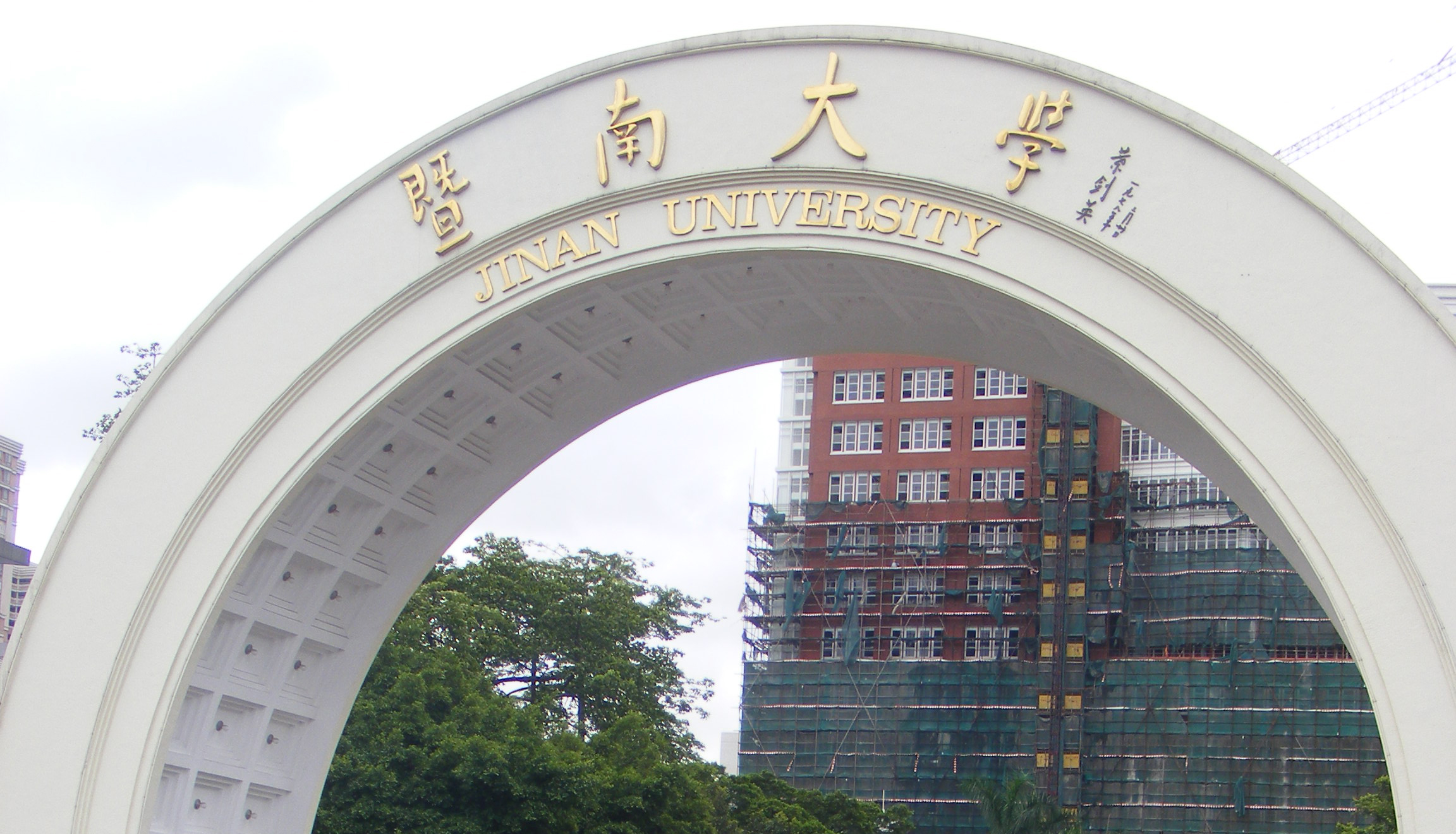 South gate of Jinan University, Canton, in June 2007.